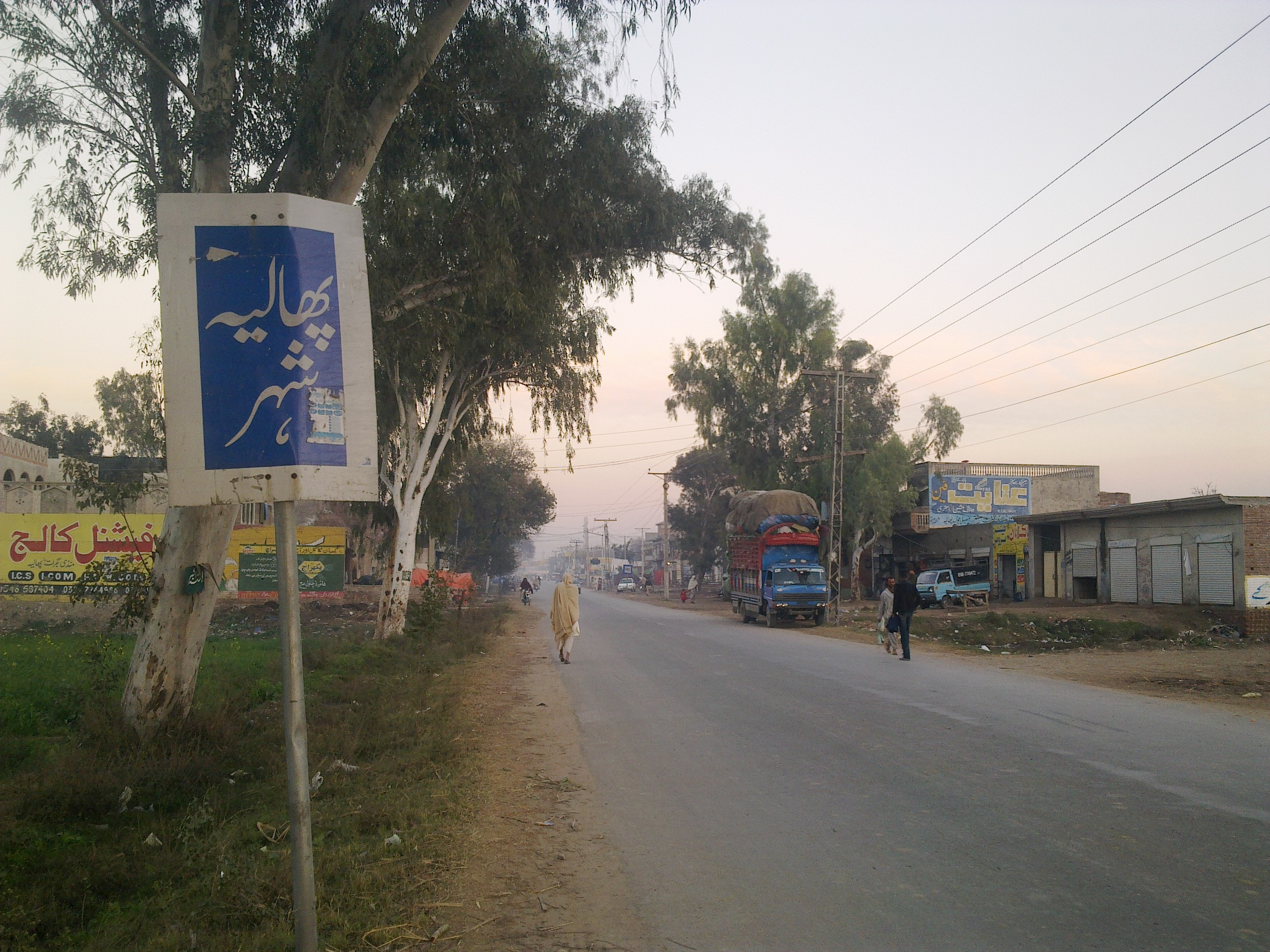 This Picture is Taken From the West Entrance of Phalia City, District Mandi Bahauddin